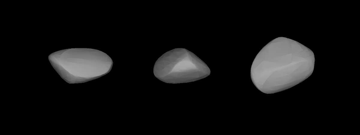 A three-dimensional model of 158 Koronis that was computed using light curve inversion techniques.